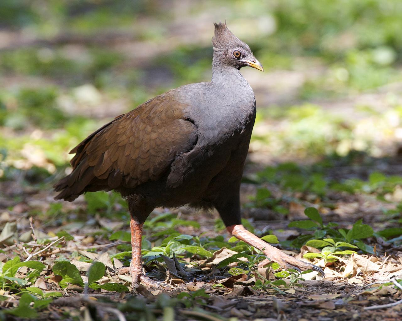 Orange-footed Scrubfowl Megapodius reinwardt ssp Megapodius reinwardt tumulus Distribution: 690V8050